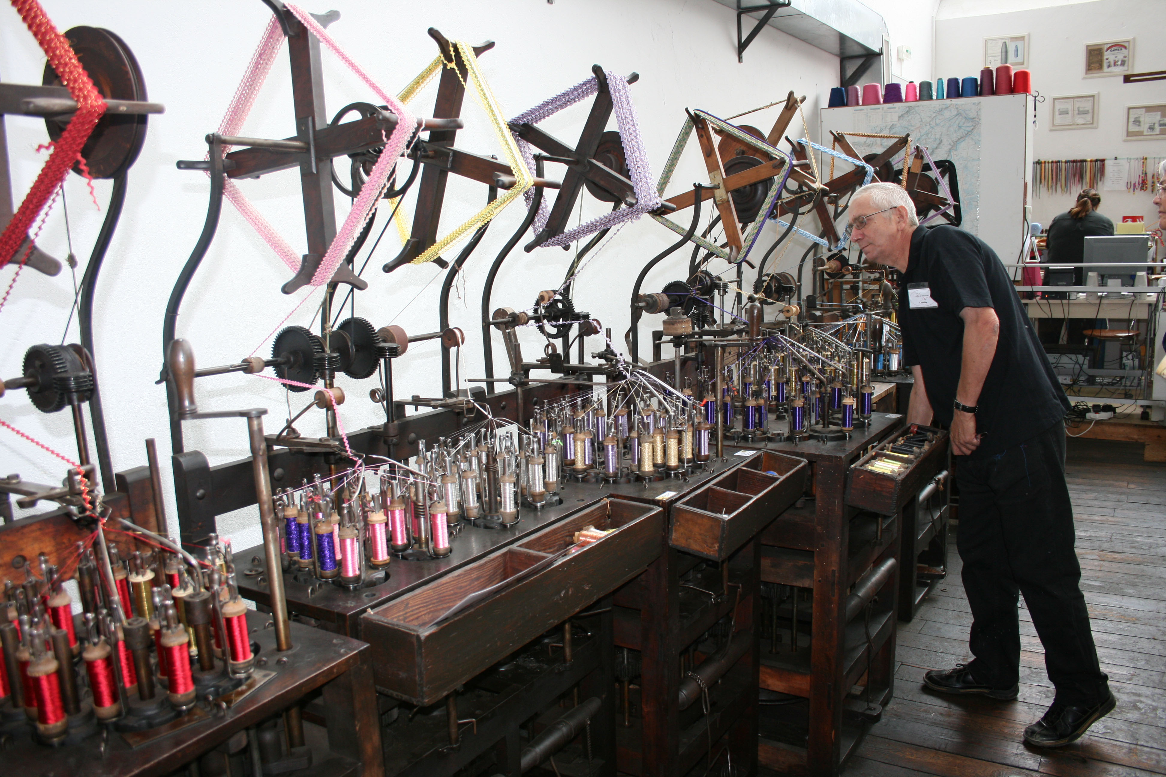 Braiding mill